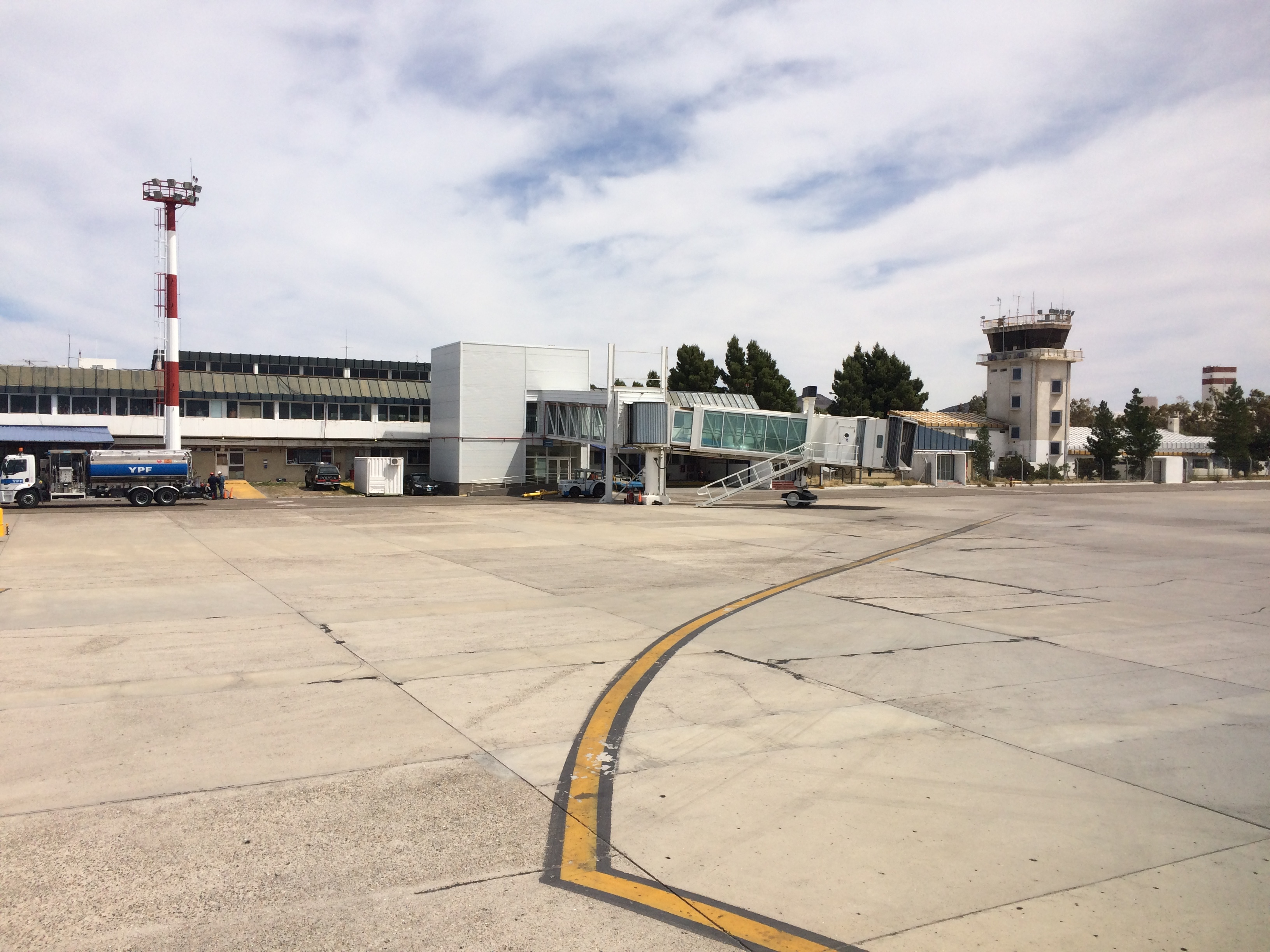 Vista arribando a plataforma en el Aeropuerto Gral. Mosconi